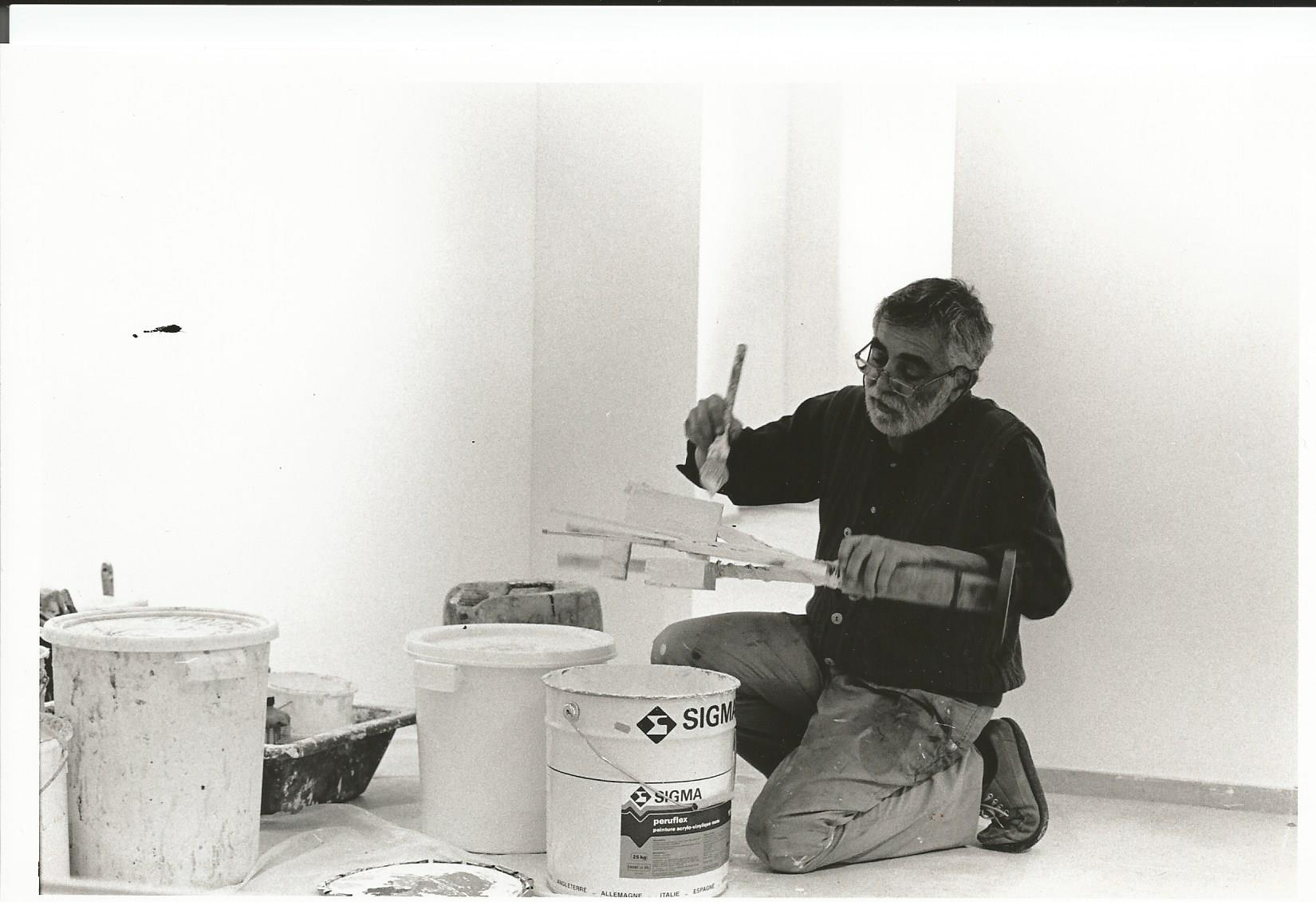 Izika Gaon, preparing his exhibition in Paris, 1994